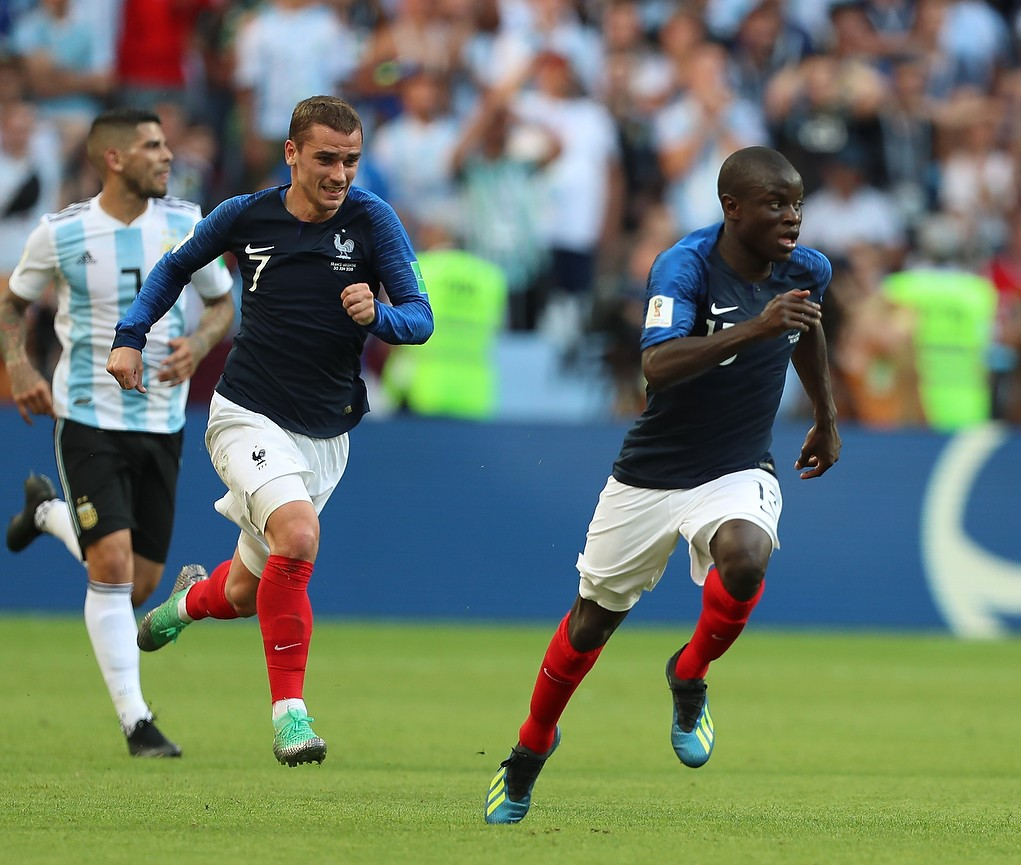 2018 FIFA World Cup Match 50, France v Argentina